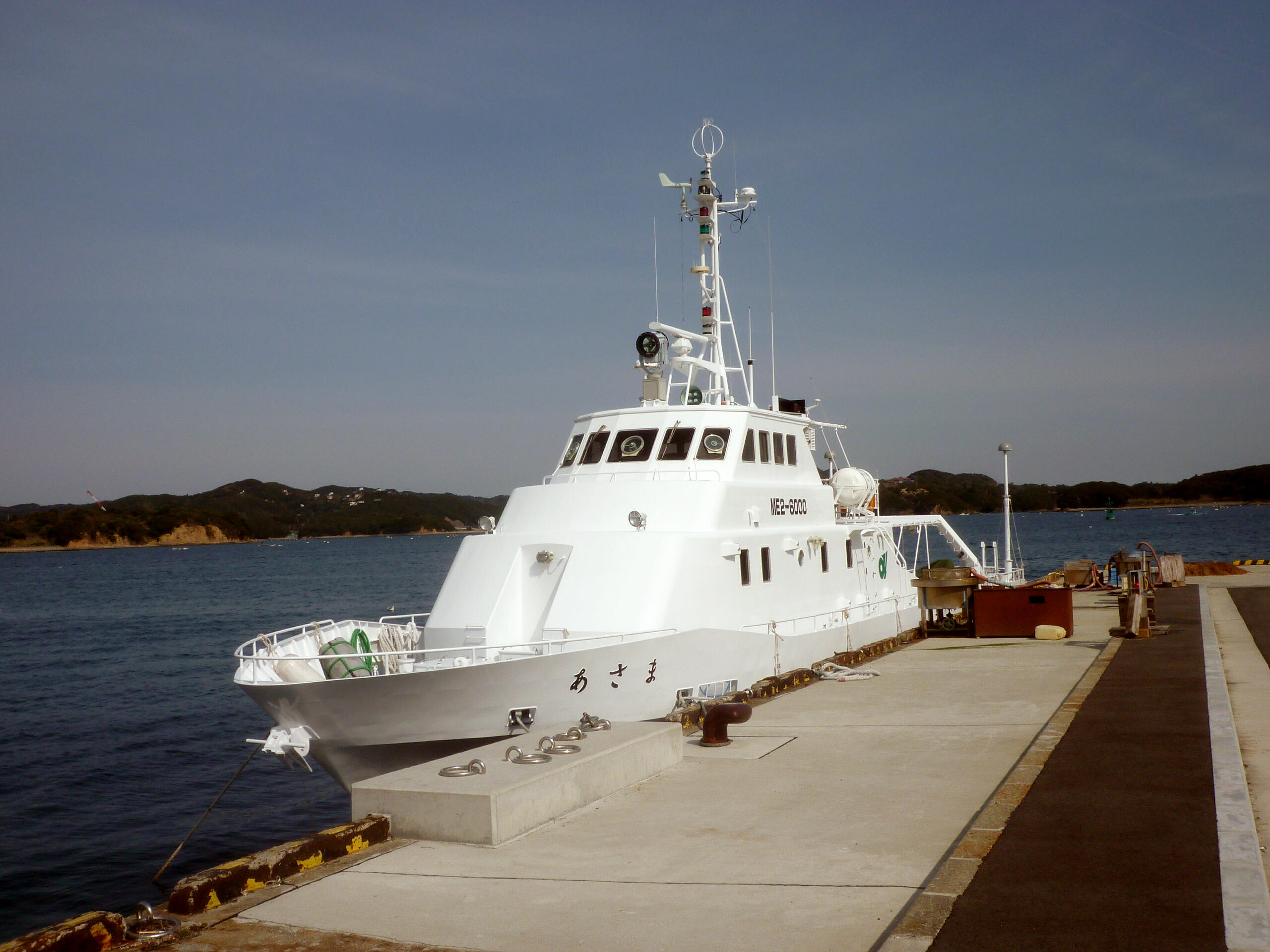 The "Research Vessel Asama" of "Mie Prefecture Fisheries Research Institute" that moors in Hamajima-port, Shima City, Mie Prefecture, Japan.